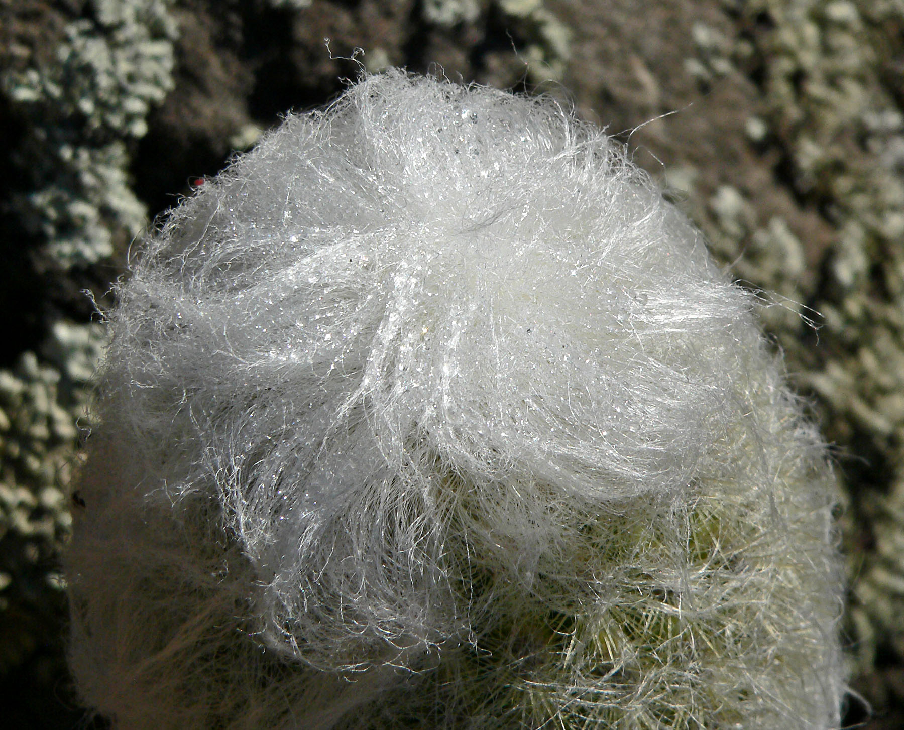 Espostoa nana at the University of California Botanical Garden, Berkeley, California